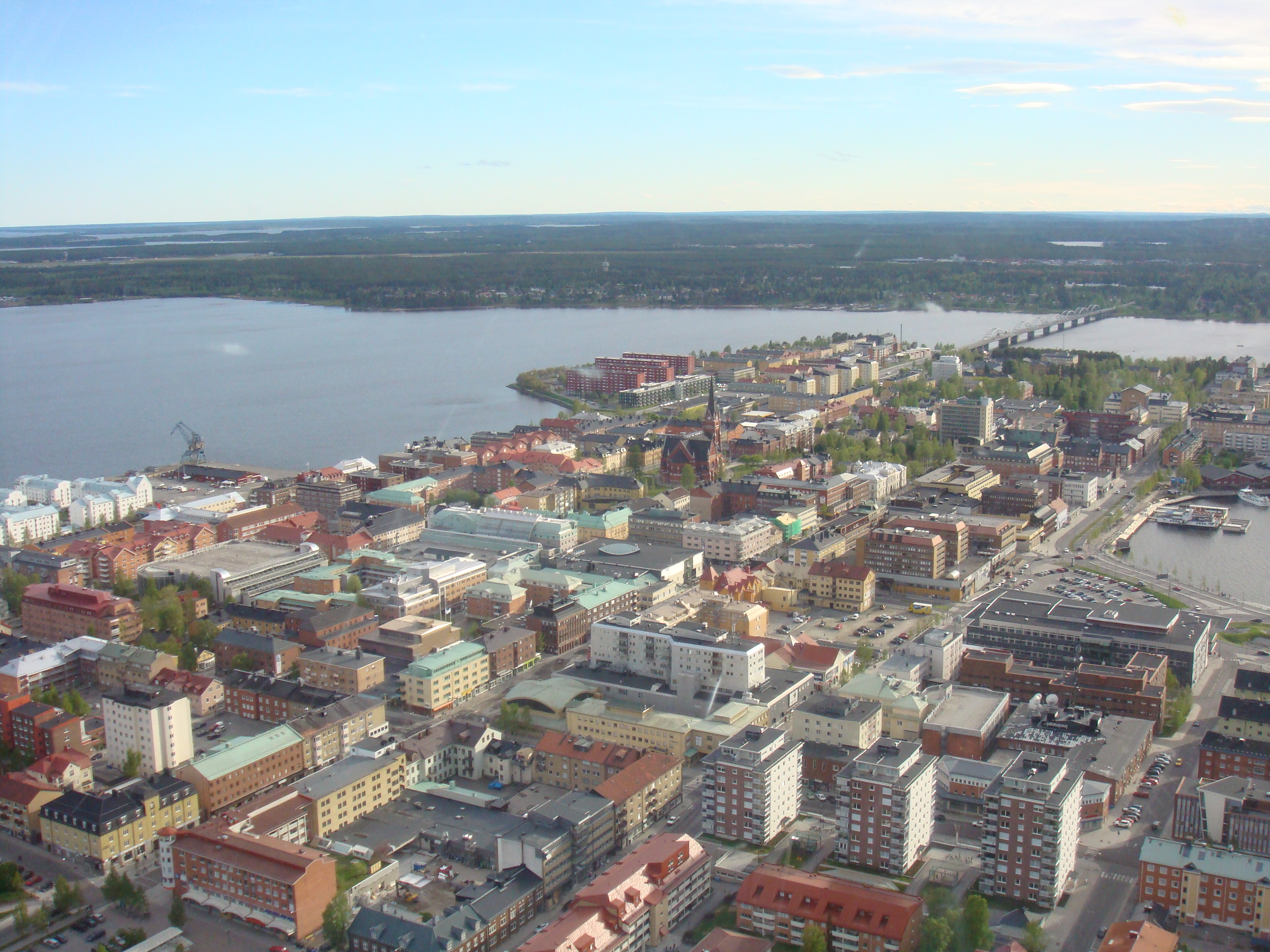 Luleå city from above